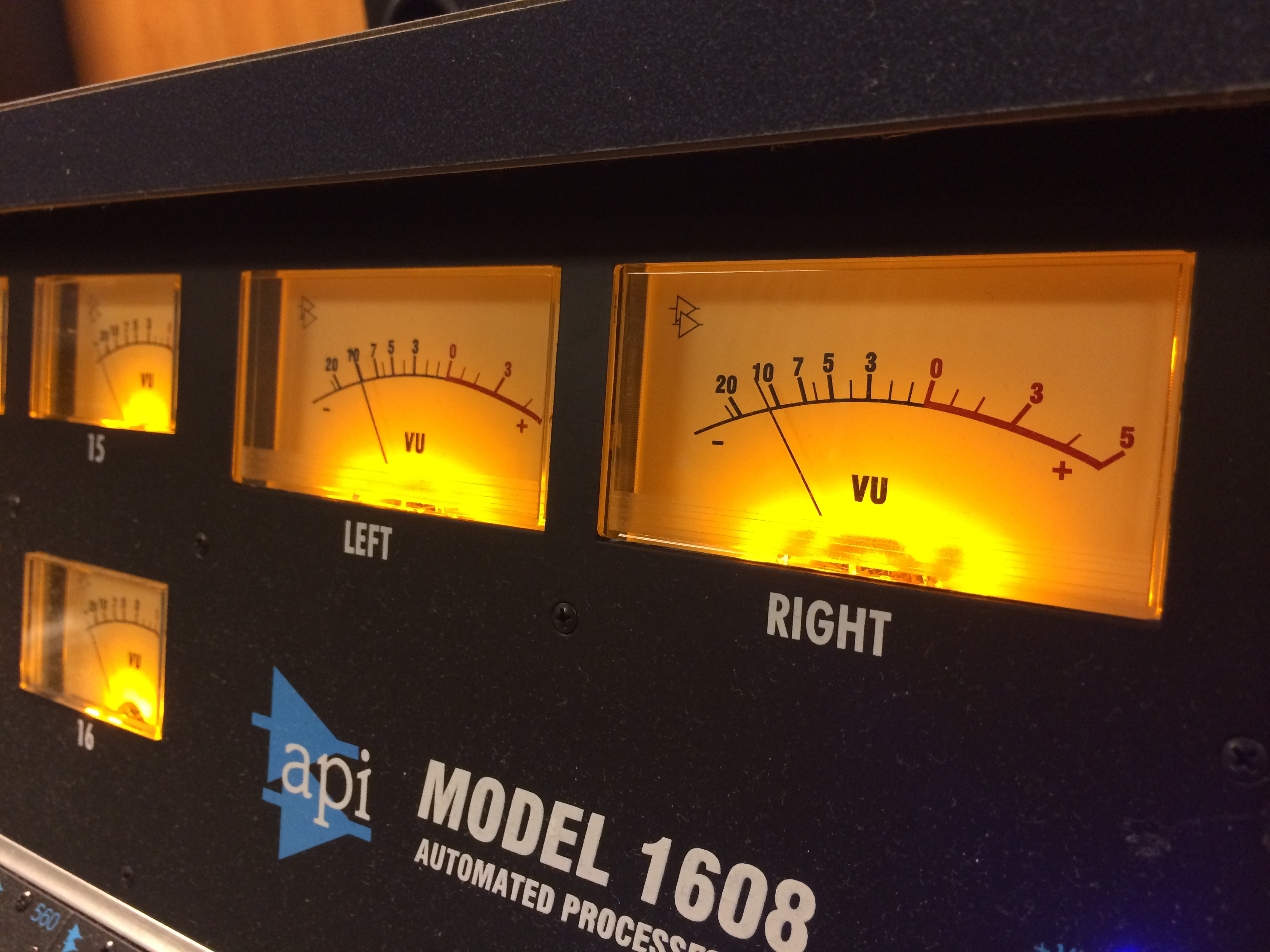 API 1608 Recording Console - logo & VU meters on bridge (photo by Q)